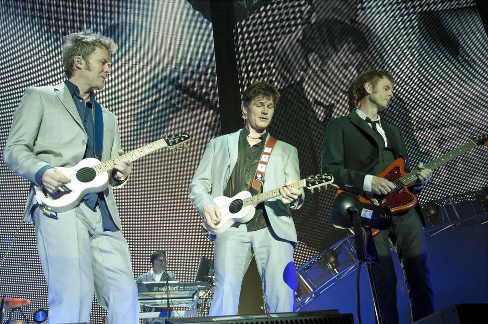 a-ha live at Palacio Vistalegre, Madrid (Spain).